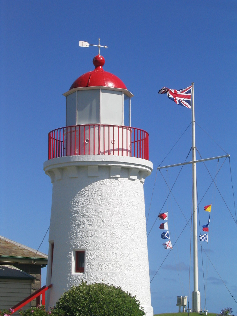 Le phare de Whaarnambool, Victoria, Australie The lighthouse at Warrnambool, Victoria, Australia